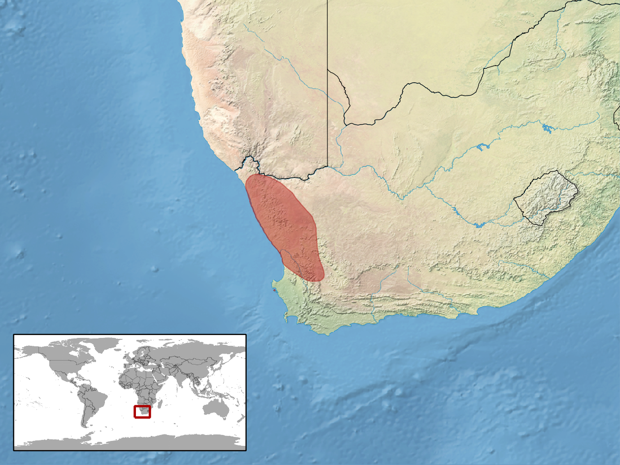 geographic distribution of Pachydactylus labialis (Native: South Africa (Northern Cape Province))